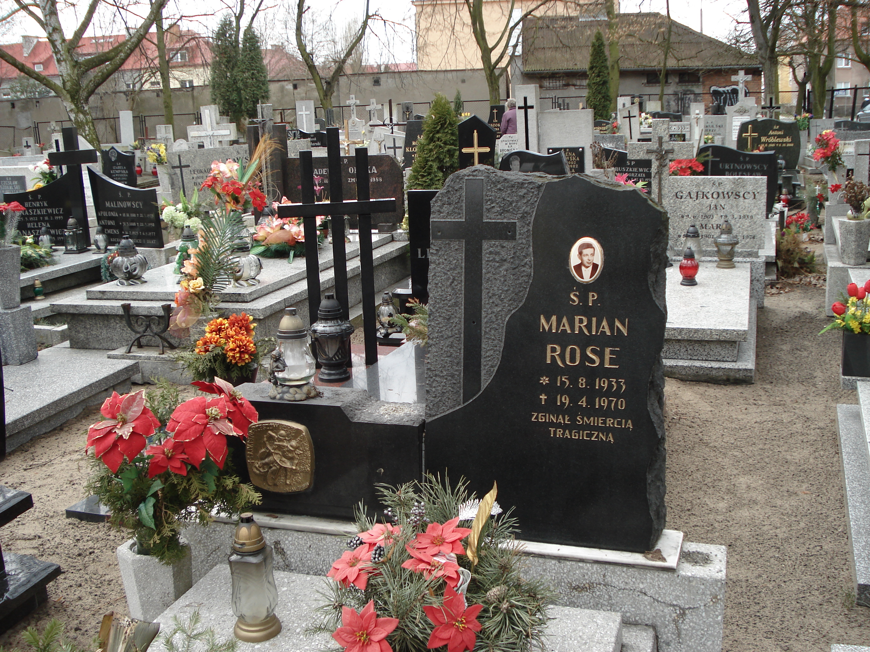 Wybickiego Street Cemetery in Toruń, gravestone of speedway rider Marian Rose (1933-1970)